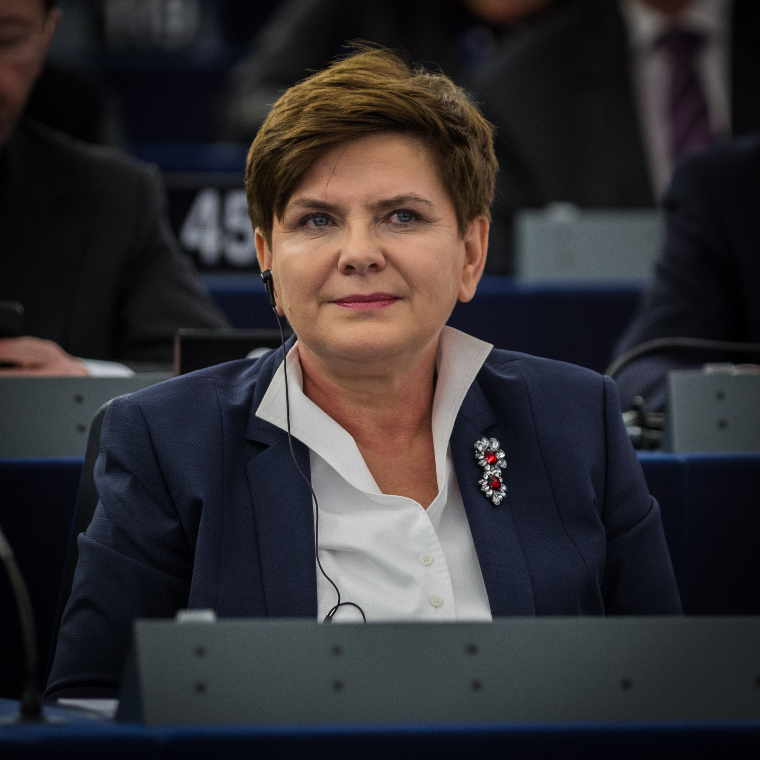 Polish Law and Justice deputy prime minister Beata Szydło in the EU Parliament during the debate on the situation in Poland.